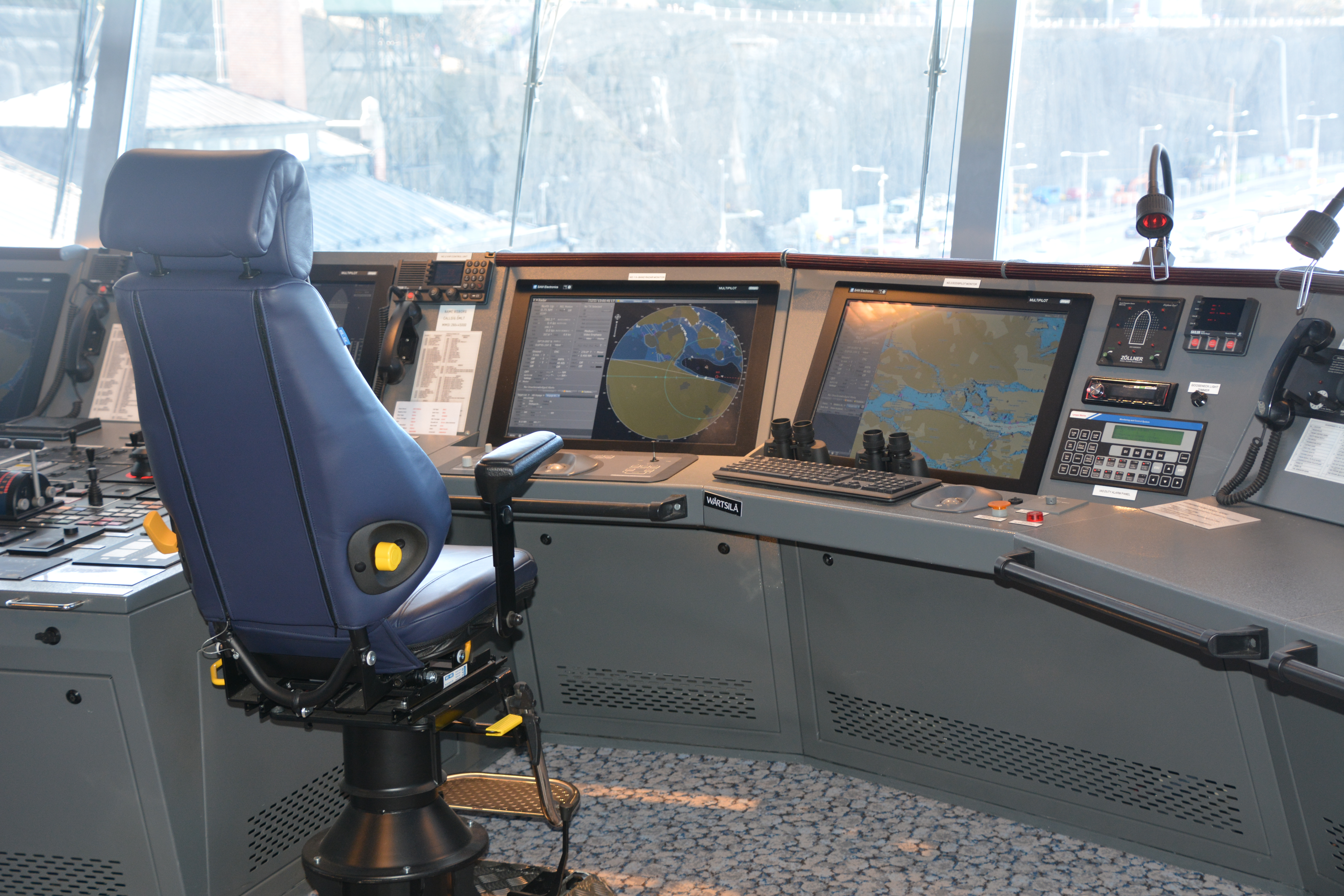 Ship's commander's seat